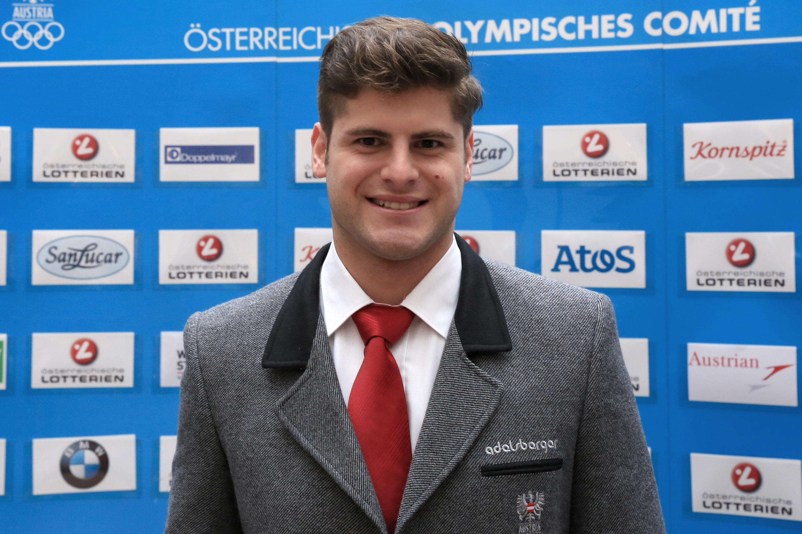 Angel Somov (bobsleigh) at the outfitting of the Austrian team for the 2014 Winter Olympics (Hotel Marriott in Vienna, Austria.